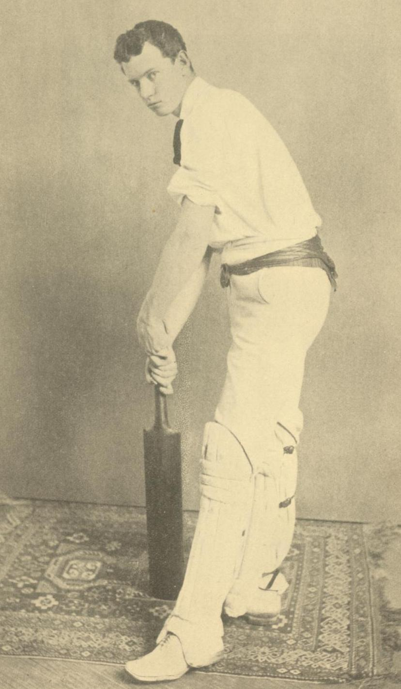 American cricketer George Patterson in 1884 in Philadelphia.